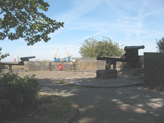 Defence cannon at Woolwich Dockyard The royal dockyard closed in the late 19th century, but this pair of cannon, formerly part of its defences against enemies sailing up the Thames, remains.